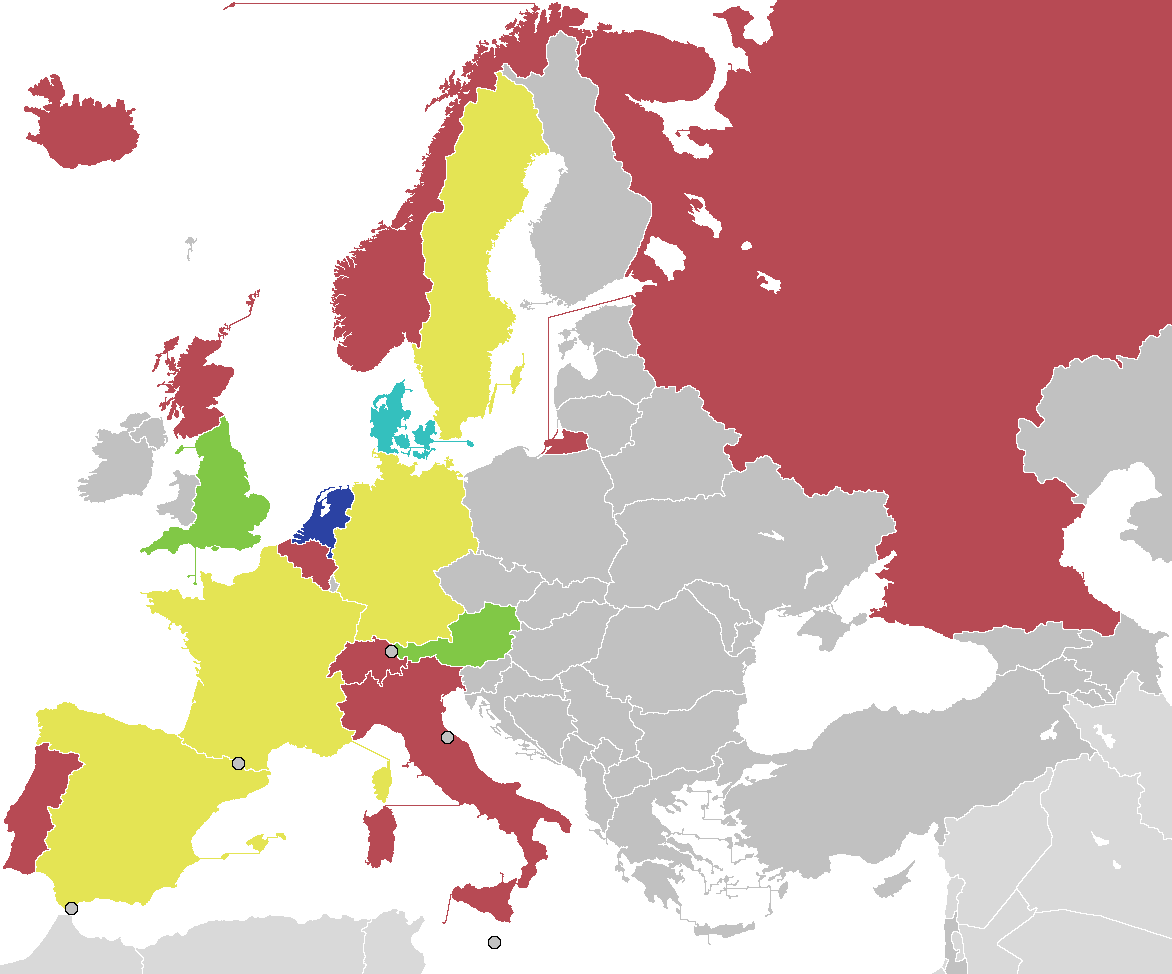 2017 UEFA Women's Championship. Participants and results.